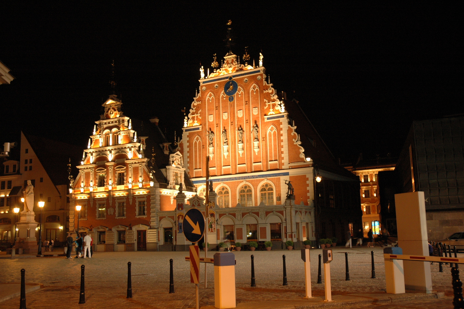 The House of the Blackheads on Rātslaukums (Town Hall Square) in Riga, Latvia